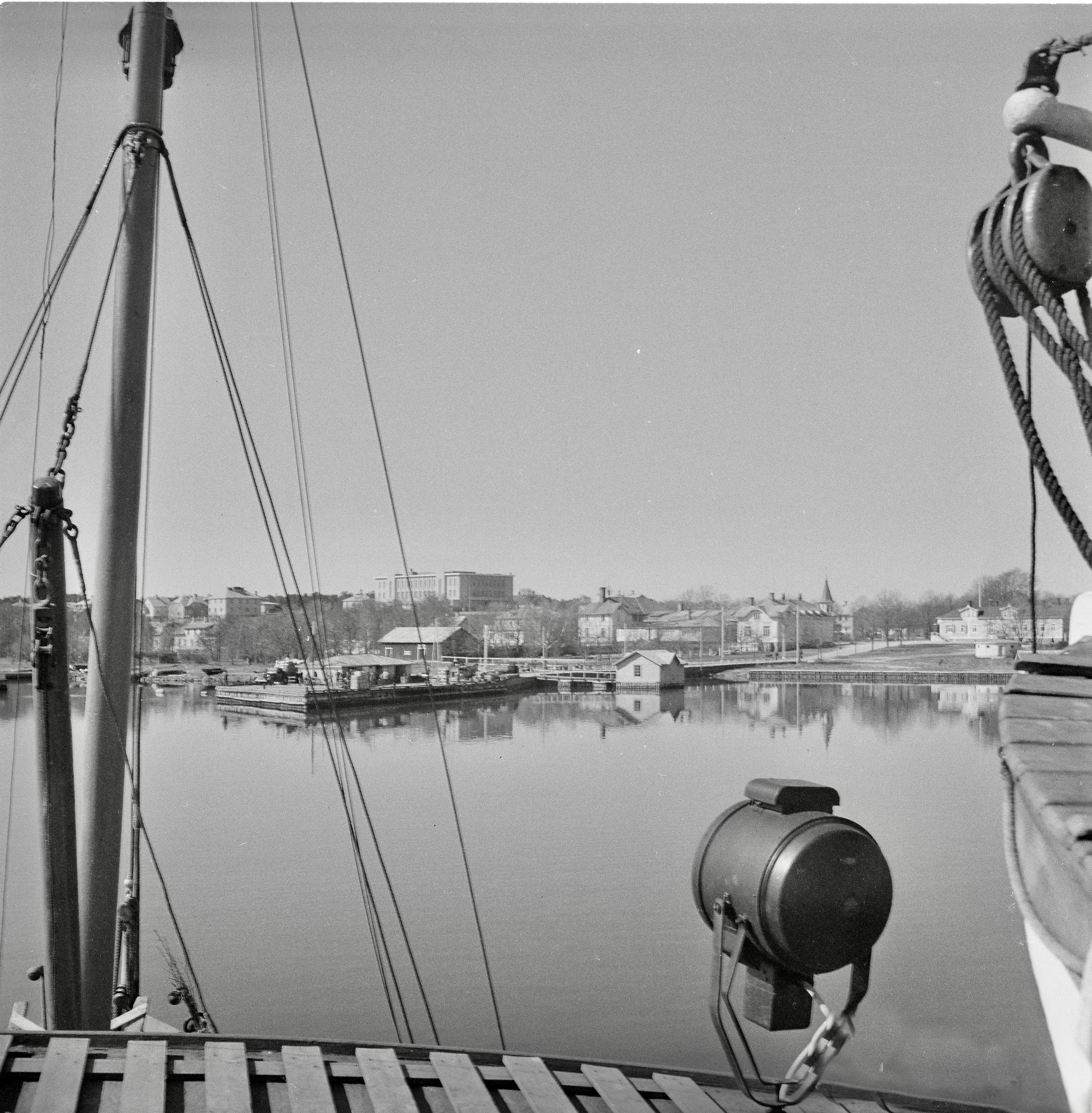 "Mariehamn seen from the east port side where the archipelago boats anchor. The town hall can be seen in the middle of the picture." Picture by Military Official (fi: "sot. virk.") Eino Nurmi.